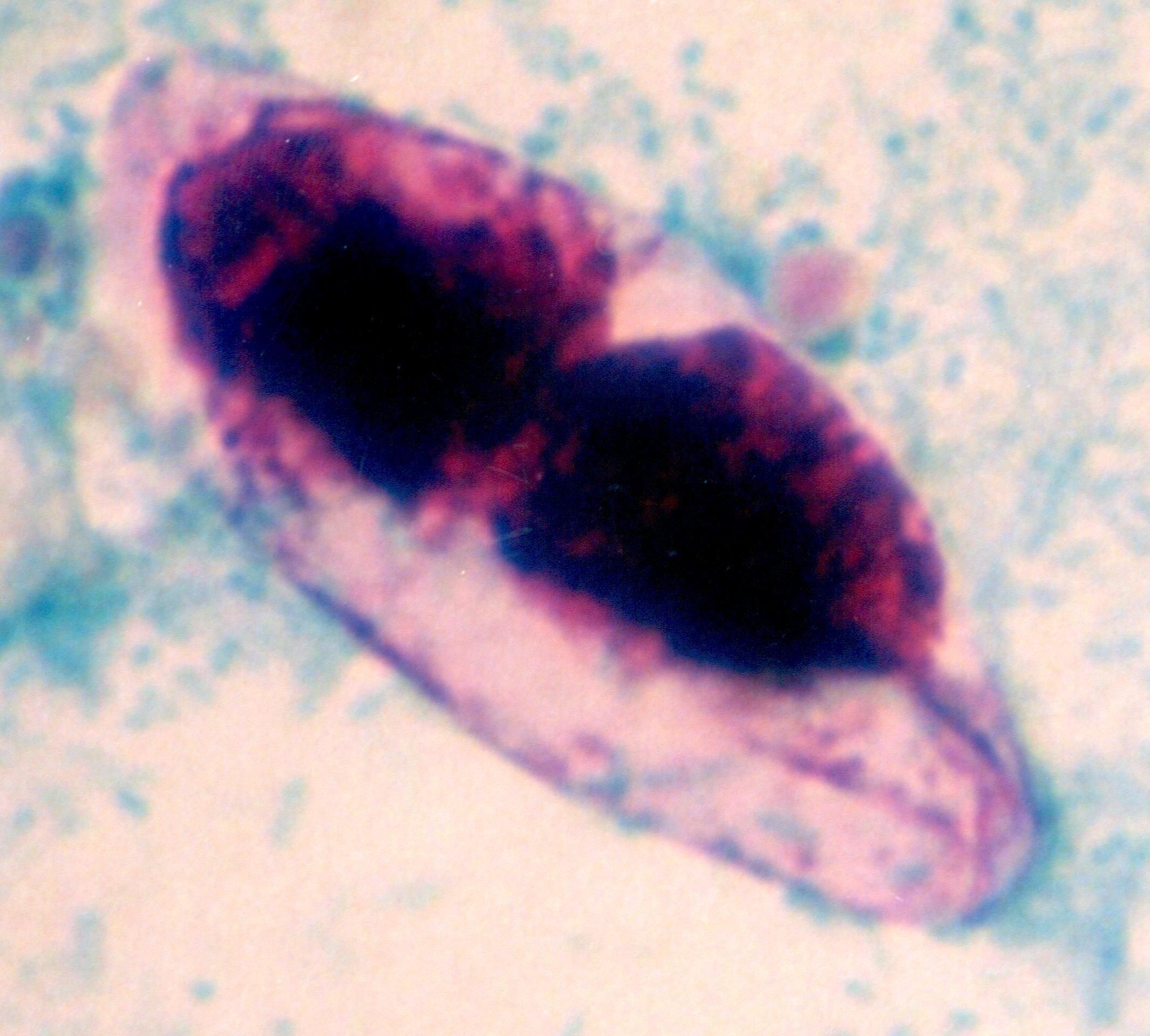 Oocit of Isospora belli, a coccidian protozoan, mammal parasite, belonging to the phylum Apicomplexa.